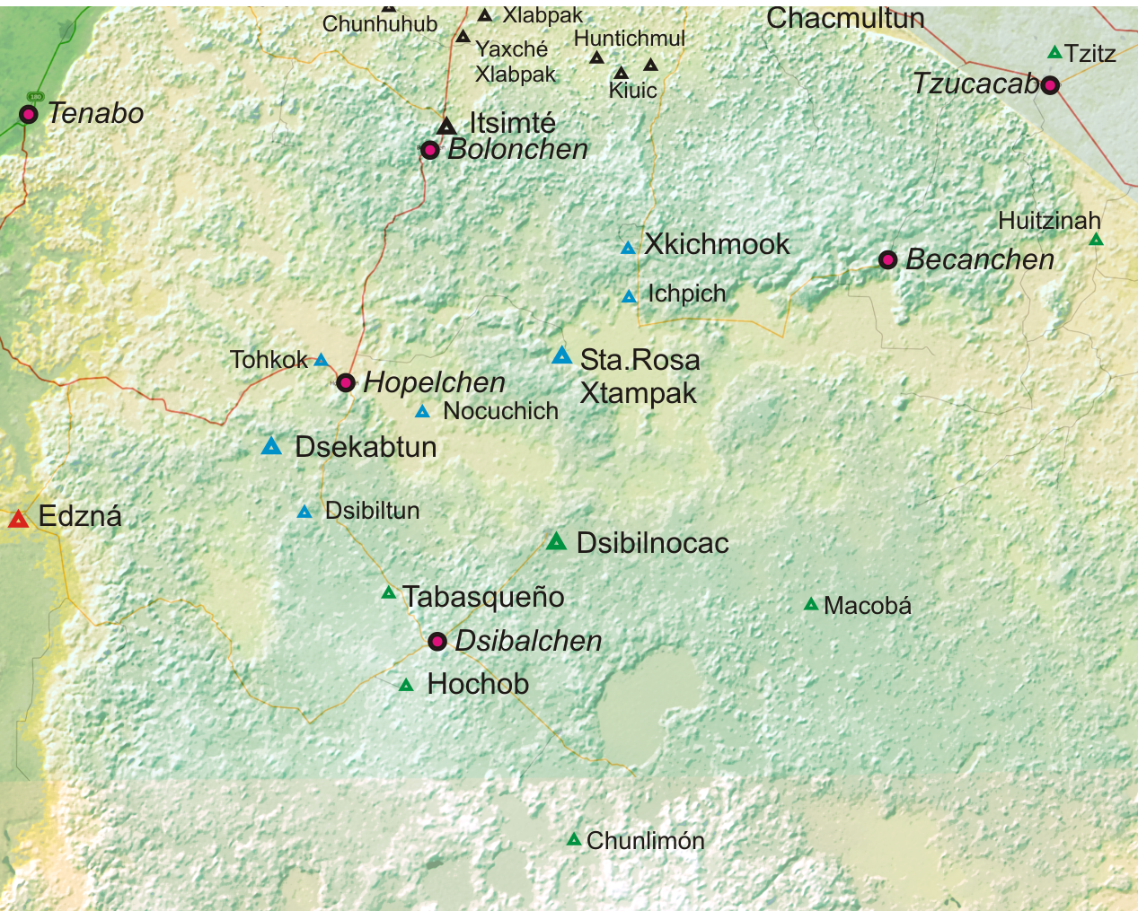 Chenes architectural style: important archaeological sites (green), transitorial Puuc-Chenes style (blue).